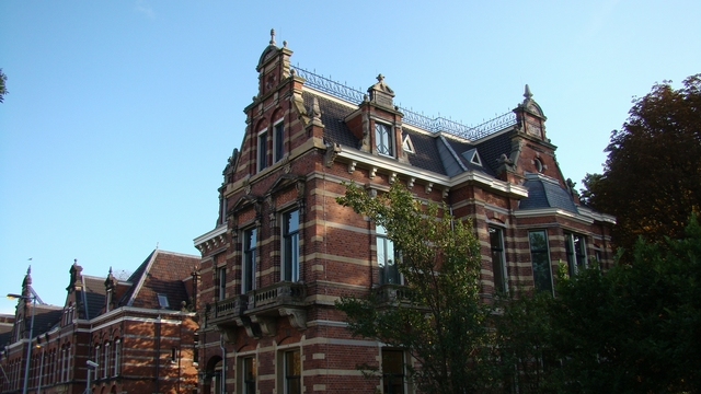 city office Westerpark